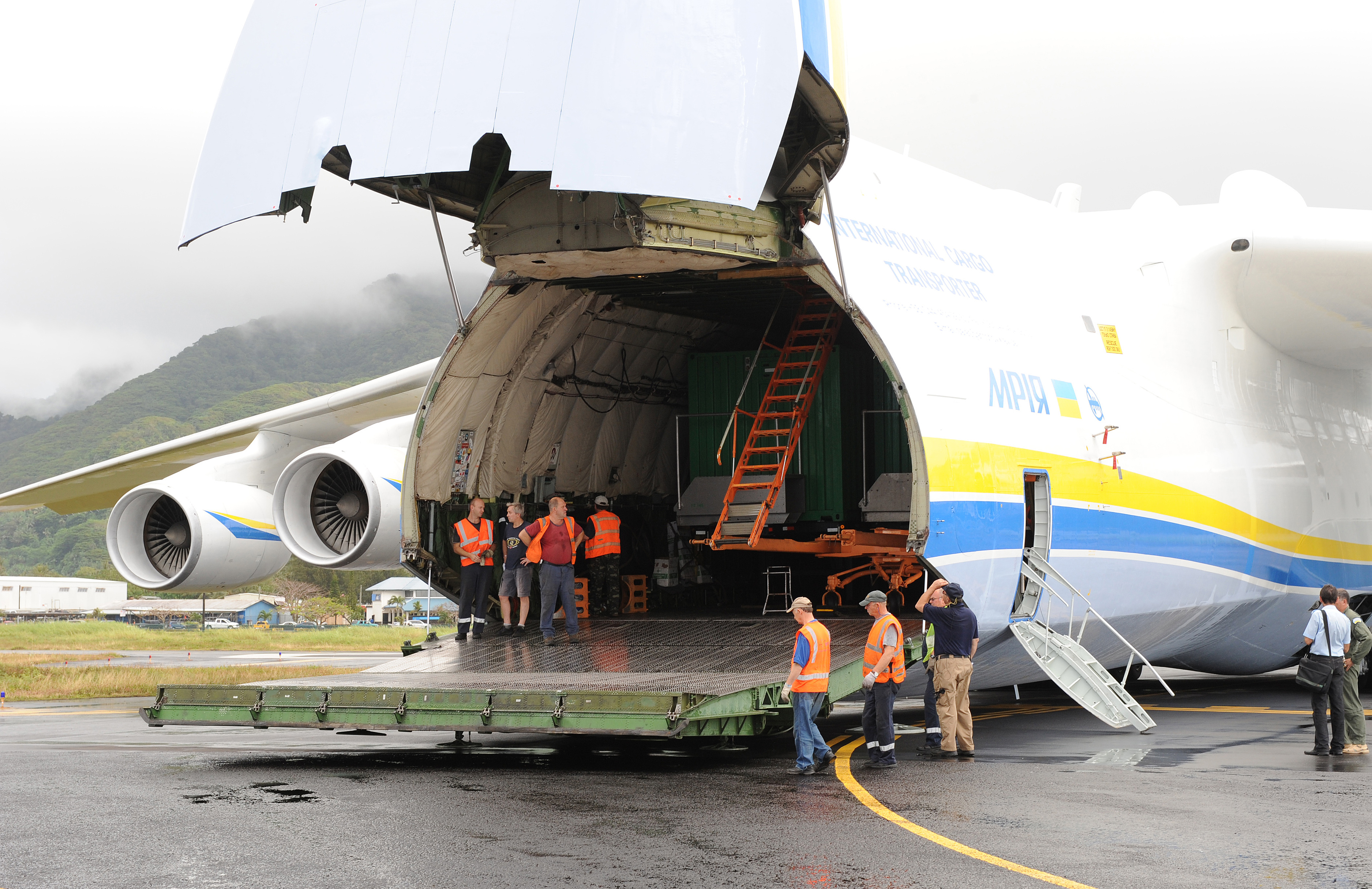 Pago Pago, AS, October 13, 2009 -- Mark Ackerman (in navy blue shirt), Federal Emergency Management Agency Staging Area Manager, oversees the unloading of generators from the Antonov AN-225 cargo plane. The cargo plane is the largest in the world and carried generators contracted by the Federal Emergency Management Agency to assist the island with electrical power restoration. Casey Deshong/FEMA